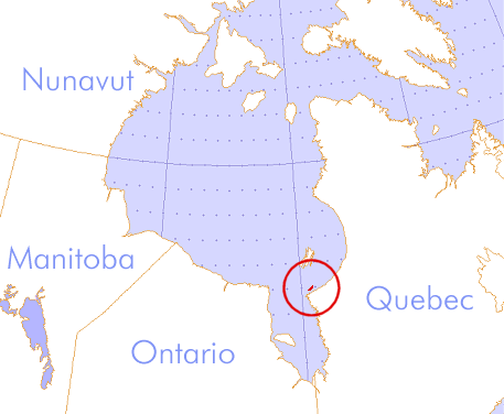 Map shows location of Long Island, Nunavut, Canada